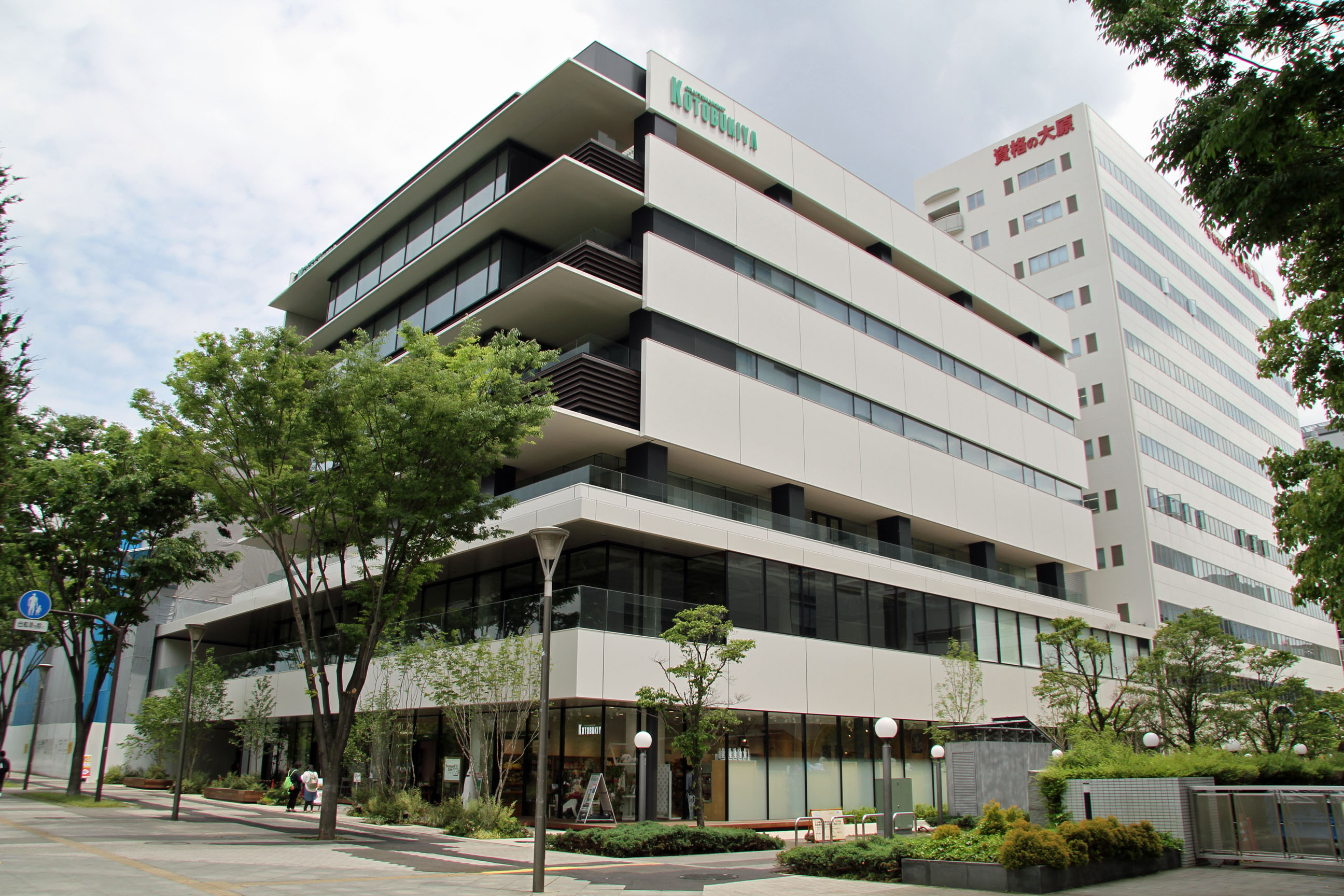 Kotobukiya Headquarters